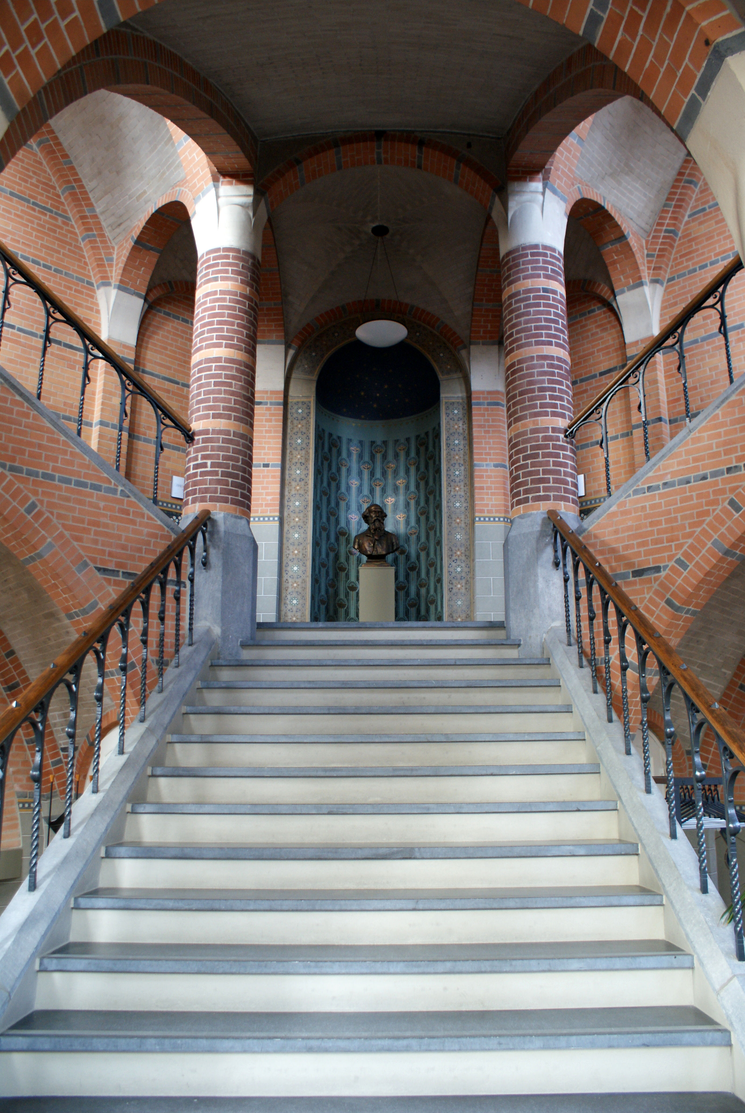 Dr Cuypers school, binnenkant Roermond